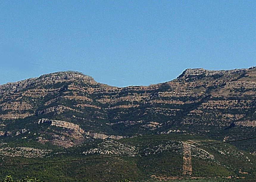 Saddle shape of the Serj moutain in Tunisia